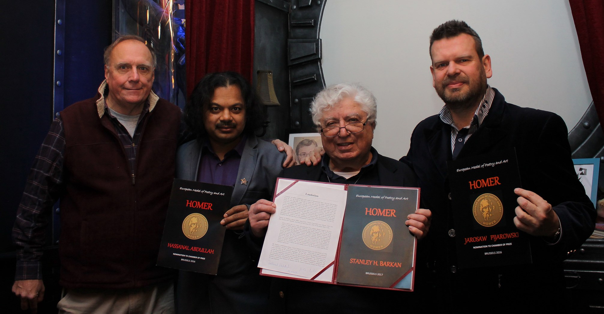 Bill Wolak, Hassanal Abdullah, Stanley H. Barkan & Jarosław Pijarowski. S H Barkan receives HOMER - The European Medal of Poetry and Art. (New York City 2017)